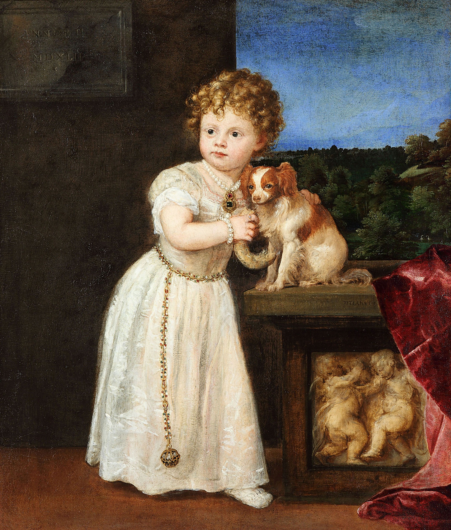 Portrait of Clarissa Strozzi (Clarissa de' Medici)